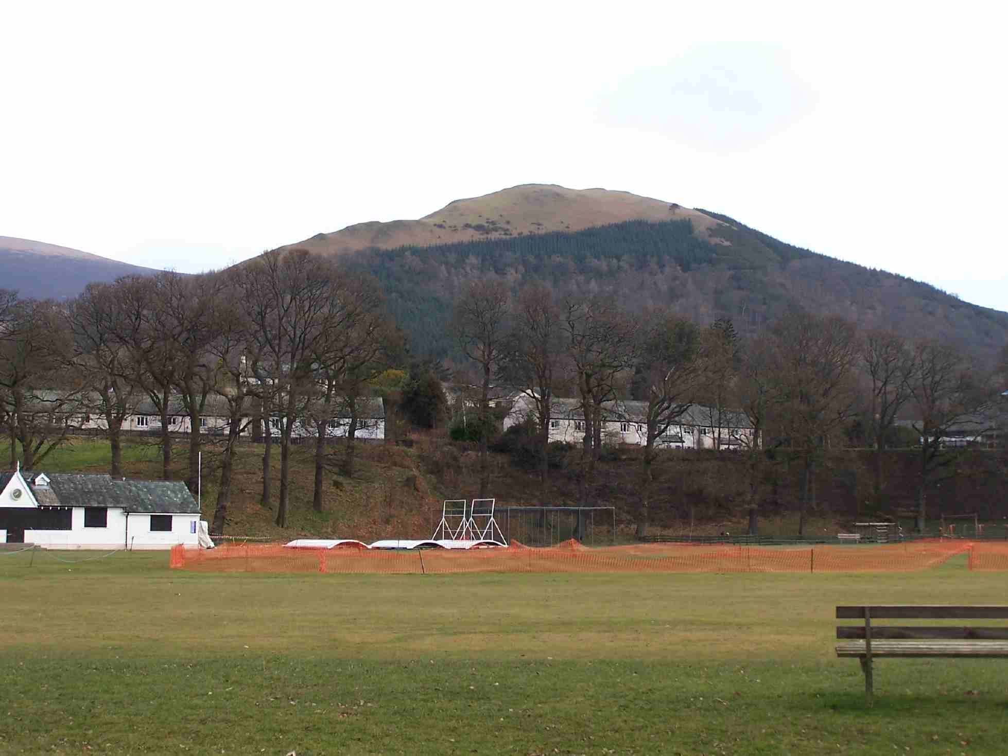 Personal photograph taken by Mick Knapton on March 24th 2006